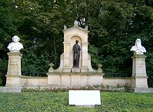 A recent color photo by Ralph Lotys of the monument to Hahnemann and Lutze placed on the German Wiki site for Arthur Lutze, and provided under license to be used so long as the photographer's name is used (see German information provided for the picture).